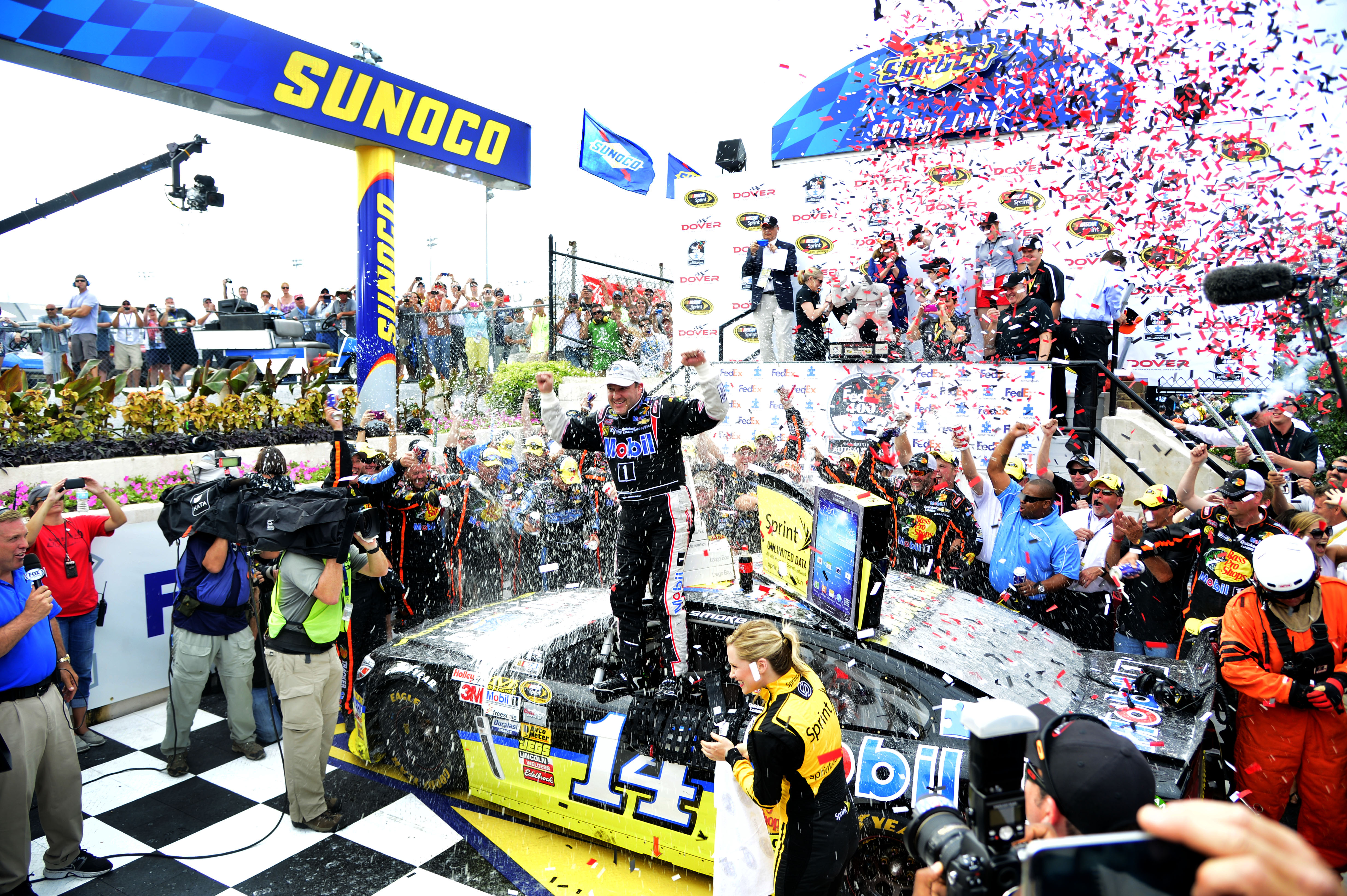 Tony Stewart, driver of the No. 14 Mobil One Chevy, celebrates in Victory Lane after winning the Fed Ex 400 Benefiting Autism Speaks June 2, 2013, at Dover International Speedway in Dover, Del. Stewart ended a 30-race win drought with his victory at the Monster Mile. (U.S. Air Force photo/David Tucker)